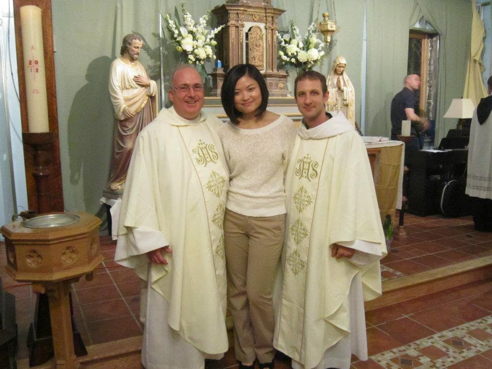 Fr. Jakob and Fr. John stand with Alice,a newly baptized Old Catholic, after the 2012 Easter Vigil.